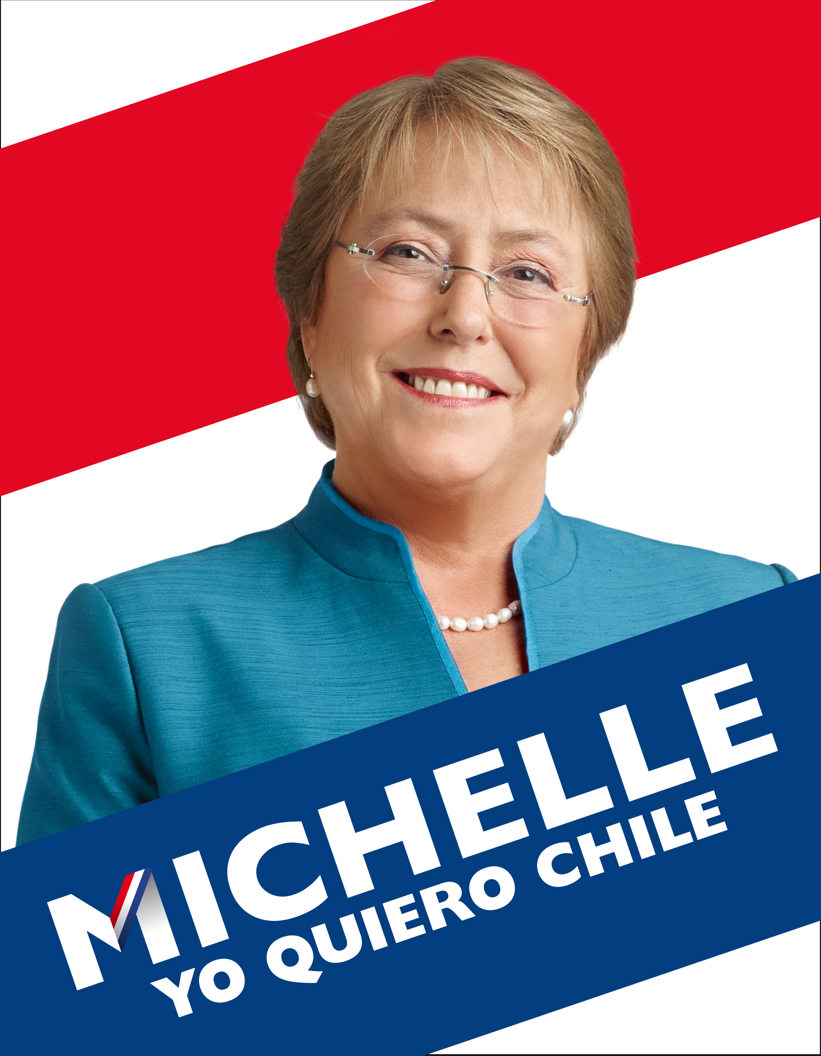 Official picture of Michelle Bachelet for the Concertación primaries for the 2013 Chilean presidential election.